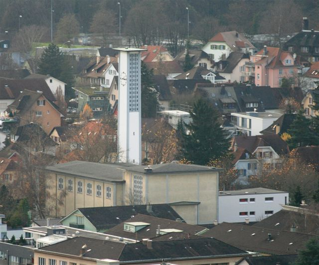 St. Anton-Church, Wettingen, Switzerland